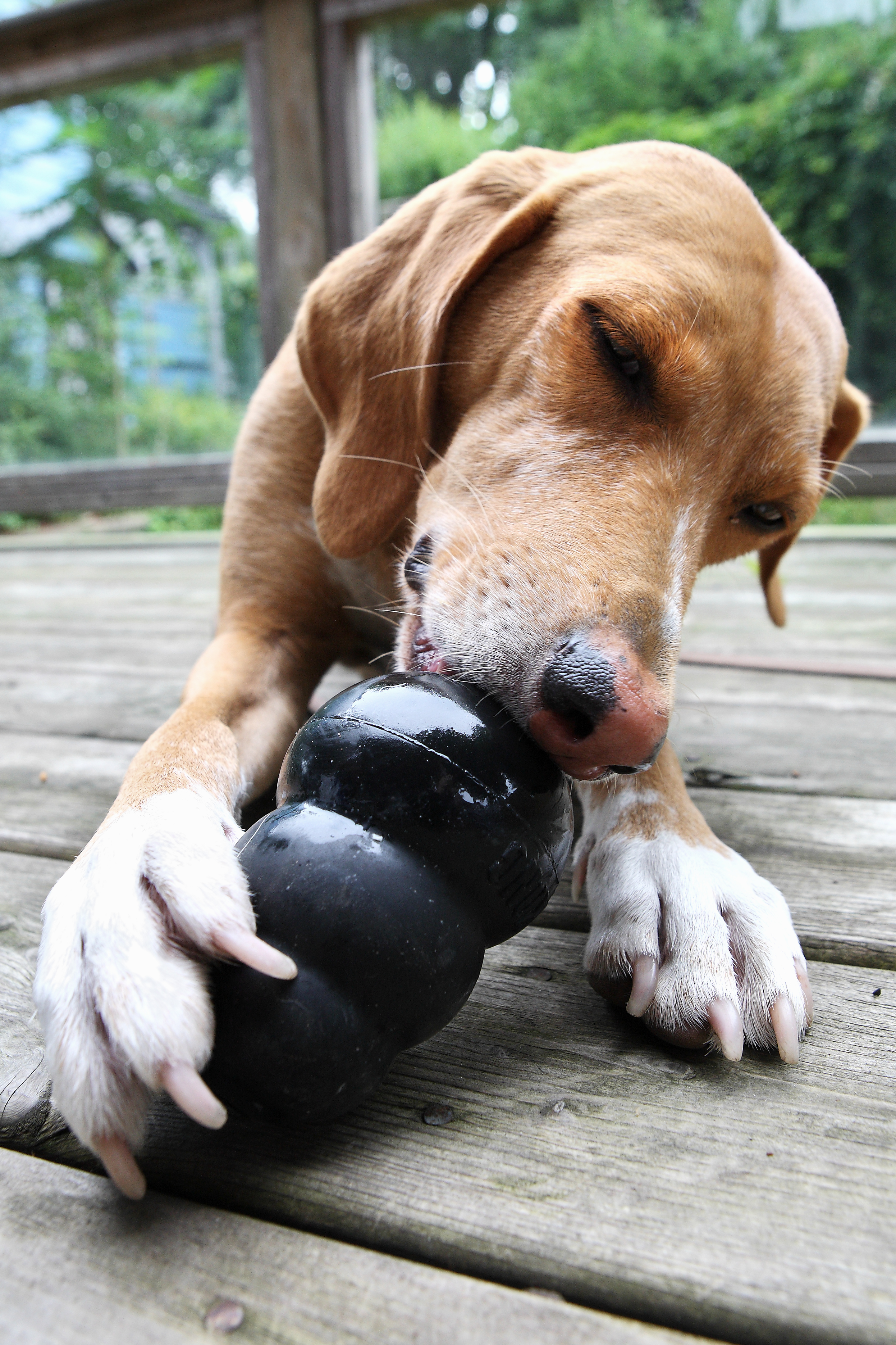 Did I mention she also has a website now: . Crazy, eh?